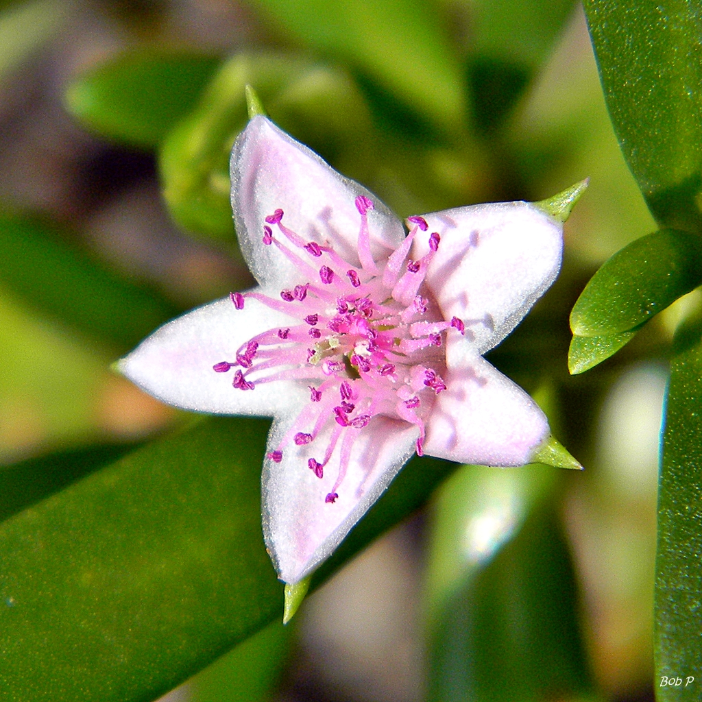 Perennial sea-purslane blooming in my front "yard". At high tide, this sturdy little plant is often inundated by salt water. The tiny pink flowers have a waxy, translucent quality with little sparkly flecks embedded (hard to describe) that can make them difficult to photograph. This one was illuminated by full sunlight. The leaves are edible (but salty). I have not tried them.